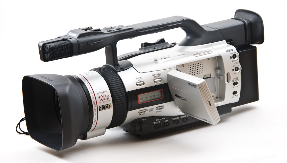 Author: Will Foster URL I am a professional photographer from Eugene, OR. I give anyone permission to use this picture can be used for anything! Just be sure to give me he heads up! I would like to know where the picture is used!